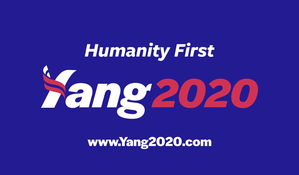 Andrew Yang 2020